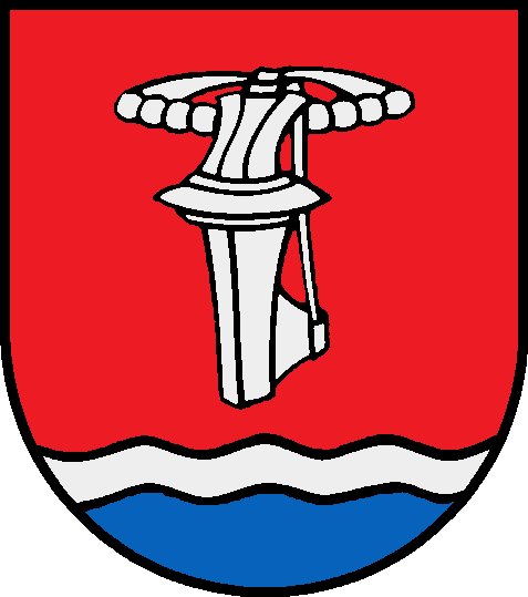 Coat of arms of the municipality Nahe in Schleswig-Holstein, Germany.